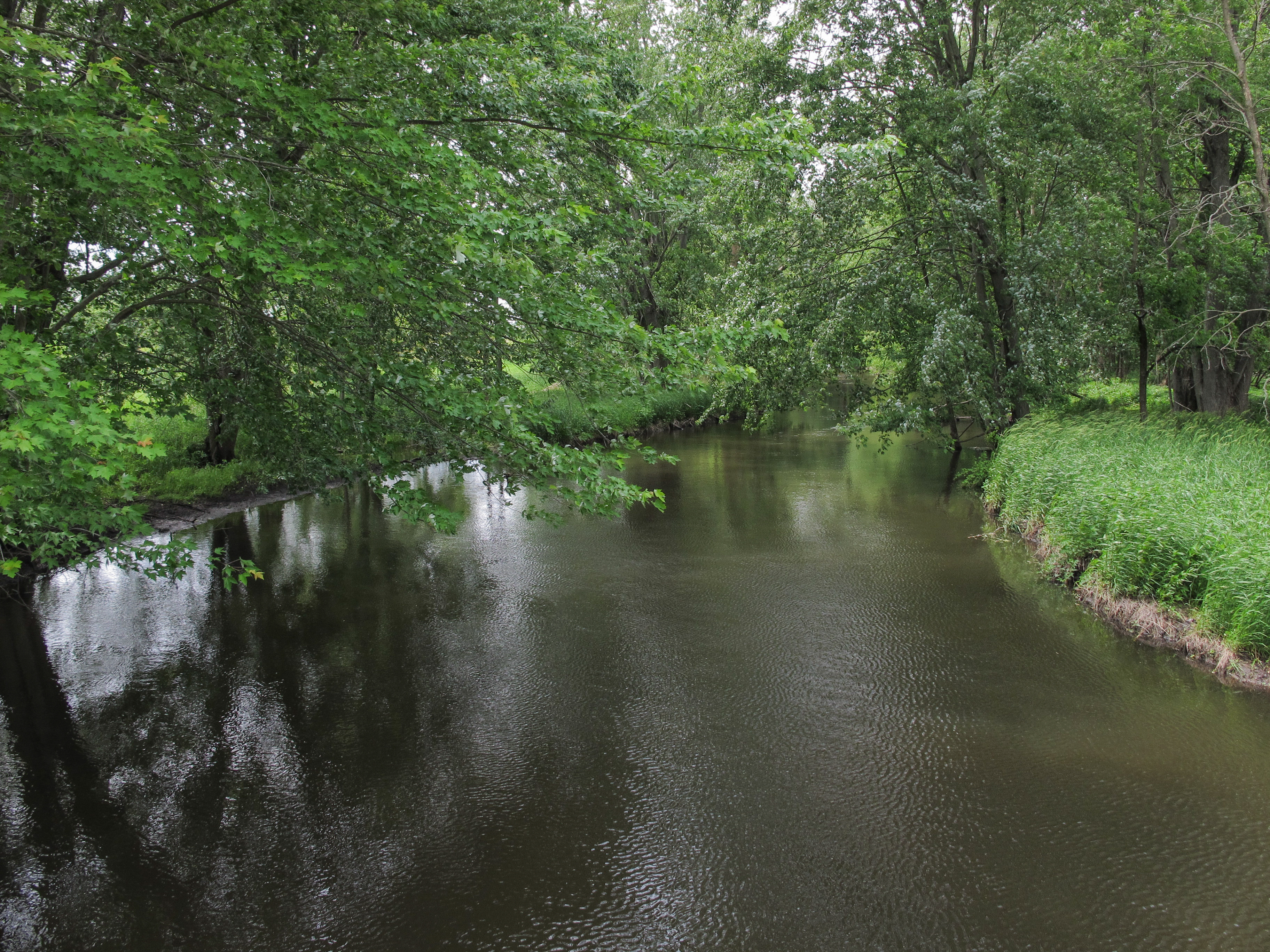 The Rocky River as viewed upstream from Delong Road in Flowerfield Township in St. Joseph County, Michigan.